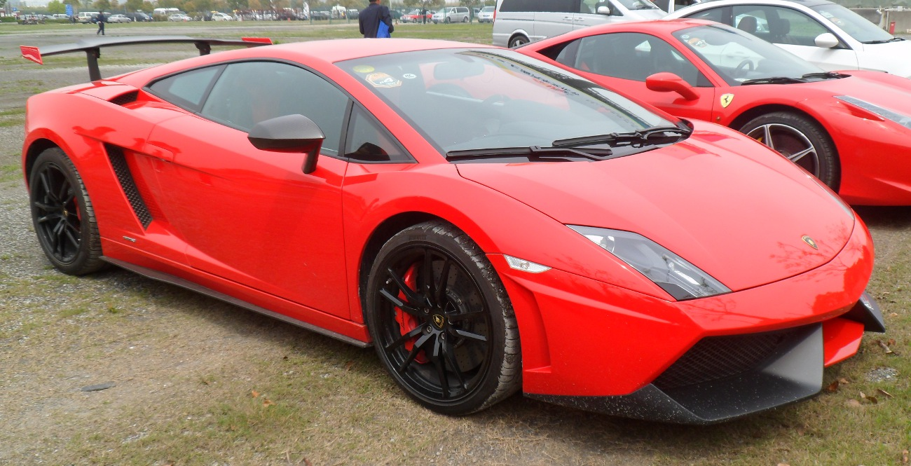 Lamborghini Gallardo LP570-4 Super Trofeo Stradale photographed in Anting, Shanghai municipality, China.